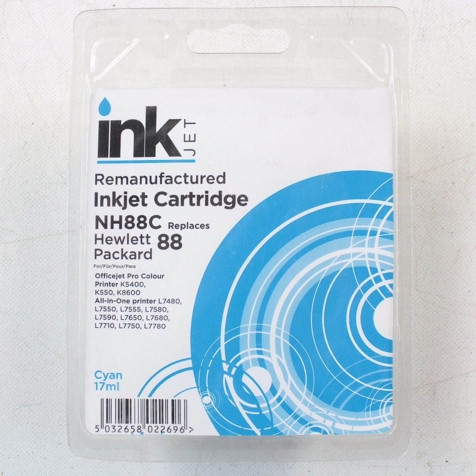 The image depicts NH88C, which is a remanufactured ink cartridge that can be used to replace the ink cartridge of name brand ink cartridges.